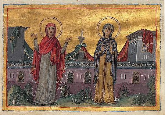 St Xanthippe Disciple of the Apostles, who died in Spain St Polyxene the Disciple of the Apostles, who died in Spain